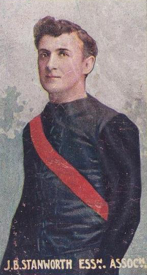 Cigarette card of Jim Stanworth from the Sniders & Abrahams 1906 series